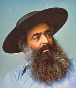 Jorge Cafrune (Argentinian musician) 1937-1978